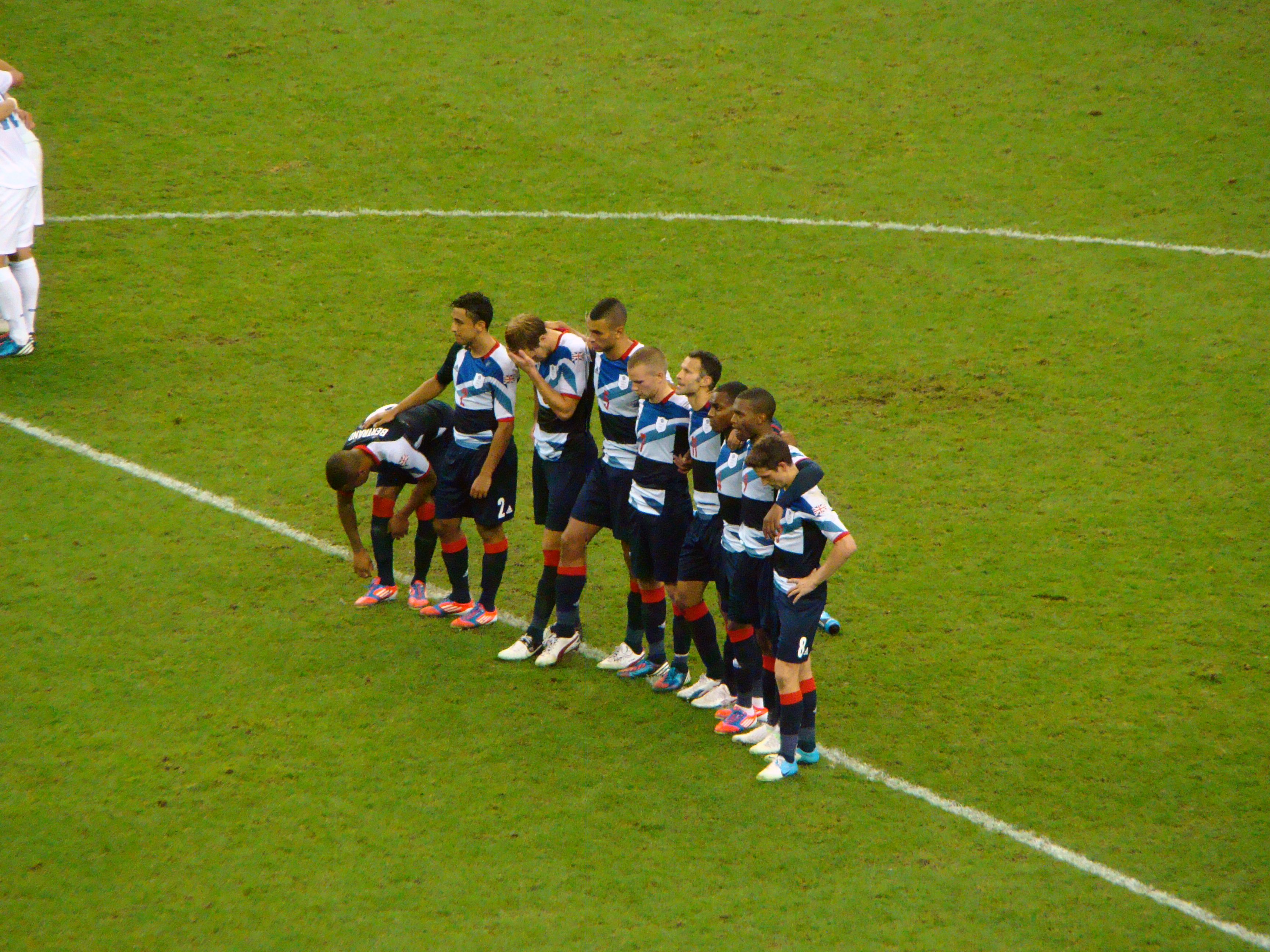 Great Britain's players watch the penalty shootout against Korea. 04/08/12 Great Britain v South Korea, Olympic Football, Millennium Stadium, Cardiff, Wales